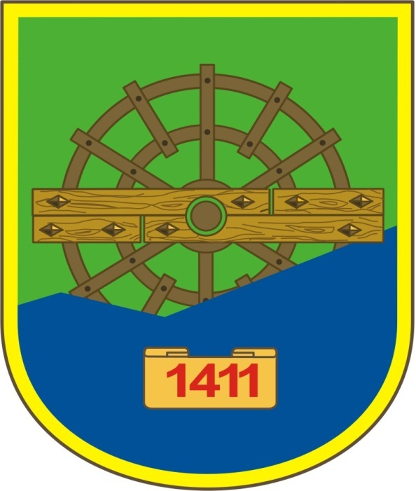 The coat of arms - Czerwonak